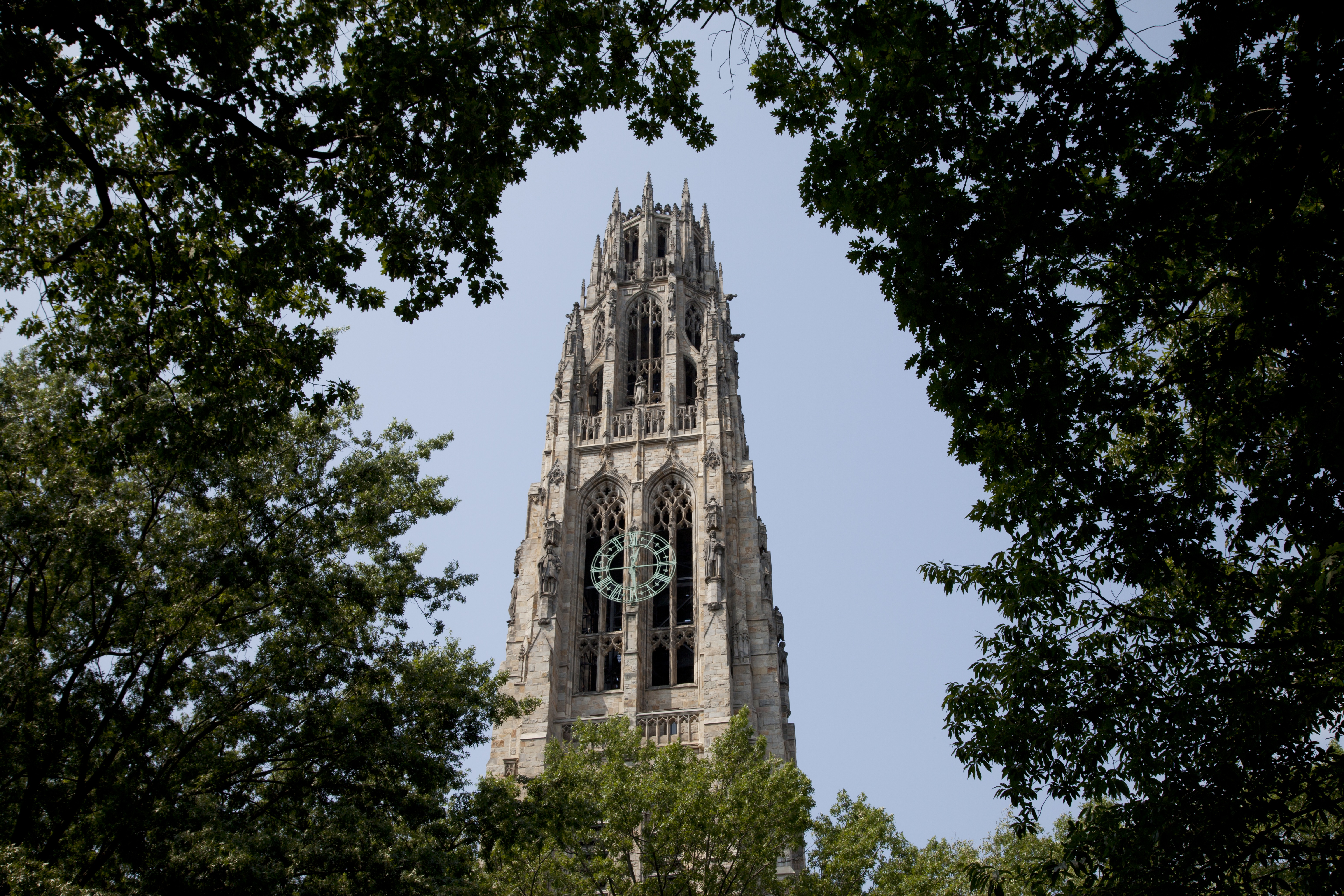 Harkness Tower from Old Campus, Yale University, New Haven, CT